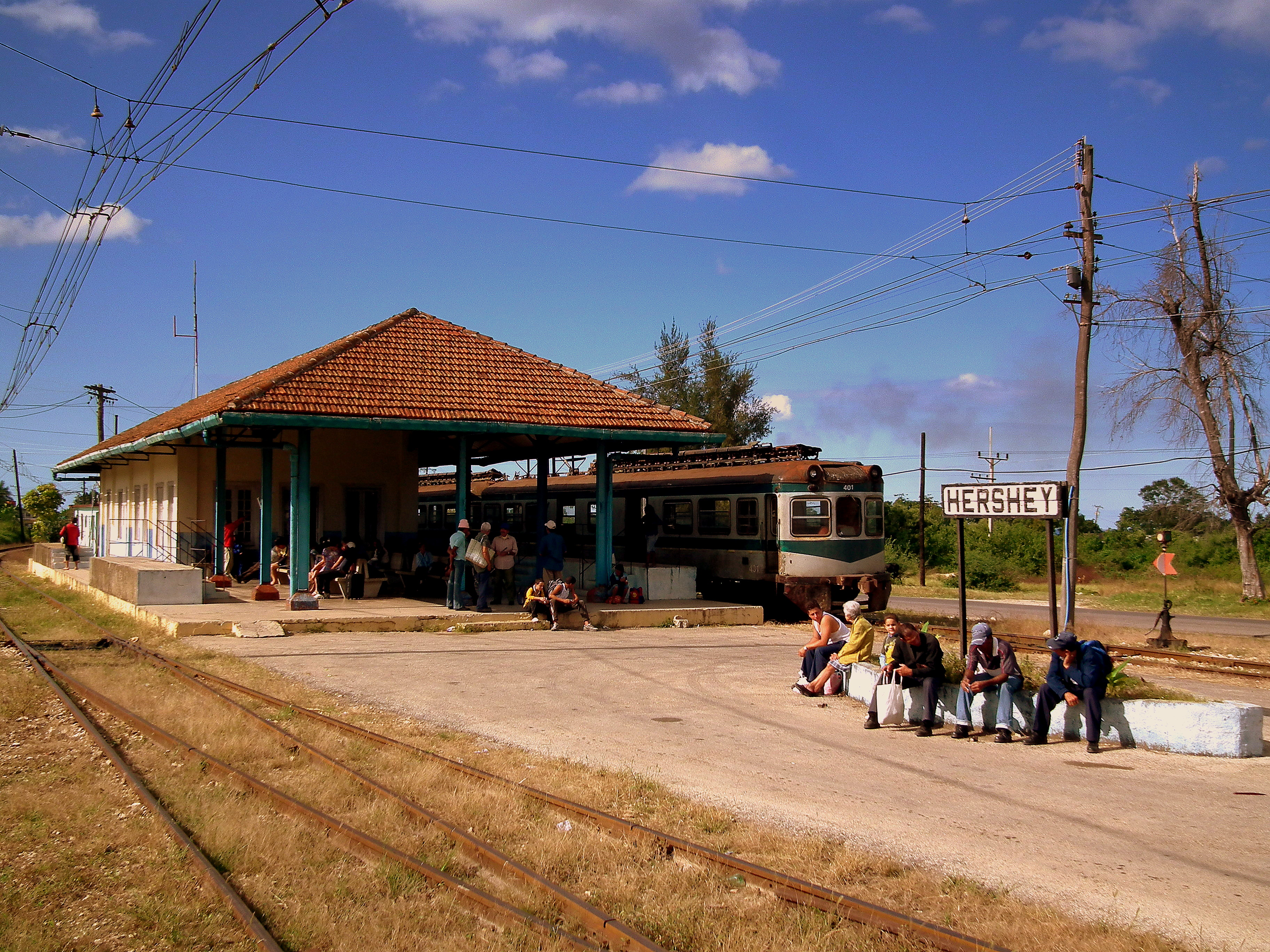 Hershey station, Hershey Electric Railway (Cuba, Dec 2010)